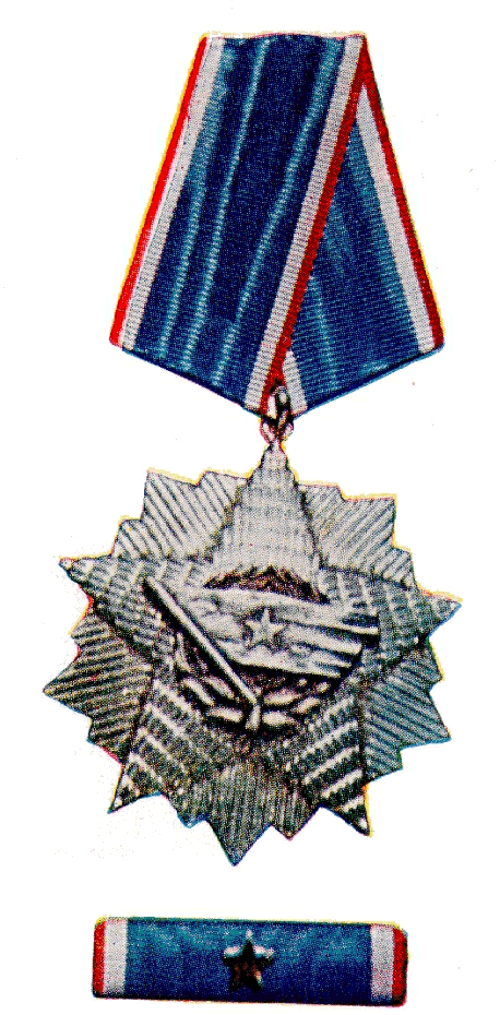 Order of the Yugoslavian flag with silver star